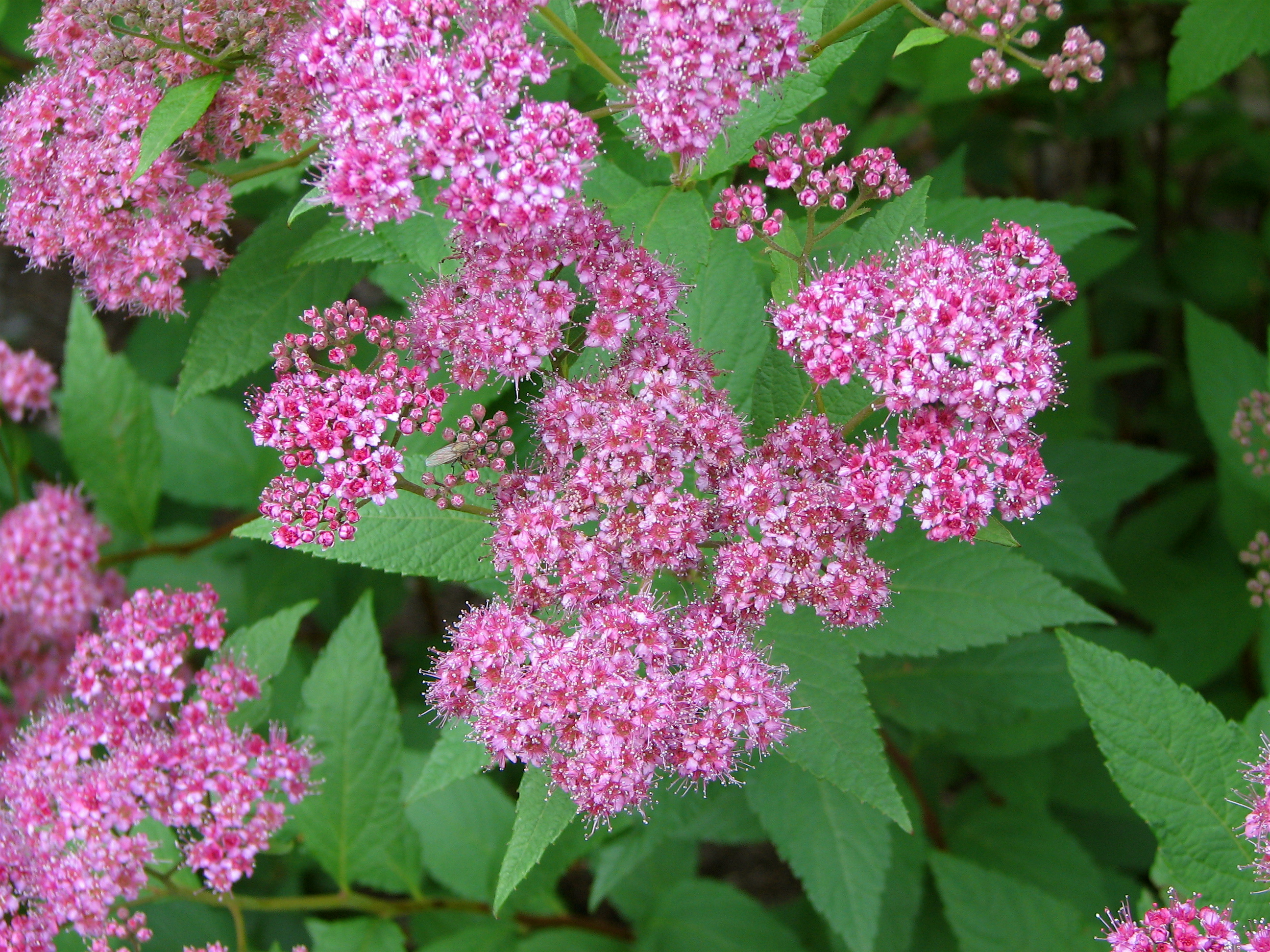 A bunch of pink and beatigul flowers in the wilderness.